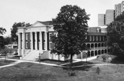 Old City Hall in Knoxville, Tennessee, USA, detail from a HABS image.